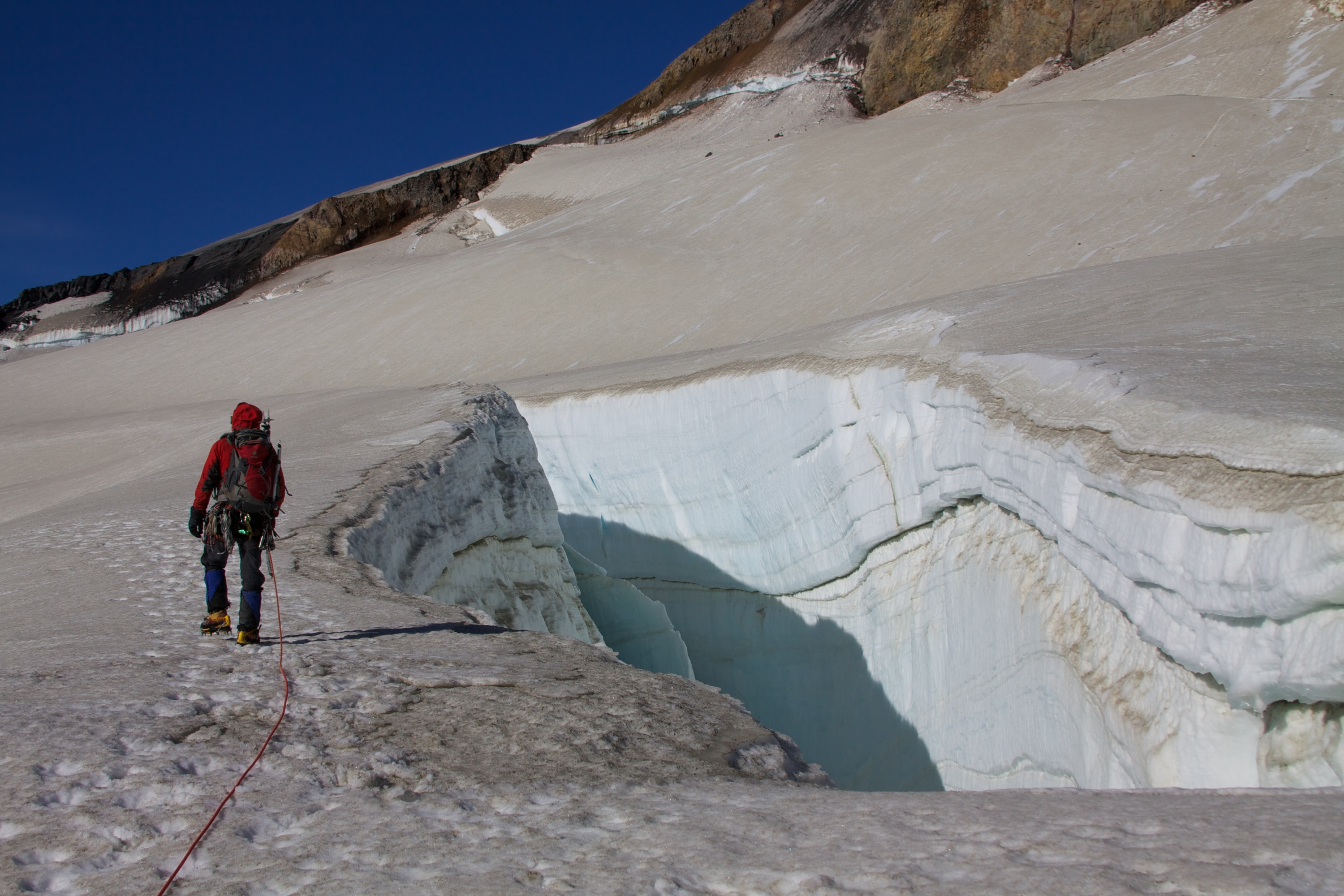 Argentina - Mt Tronador Ascent - 33 - descending among the crevasses